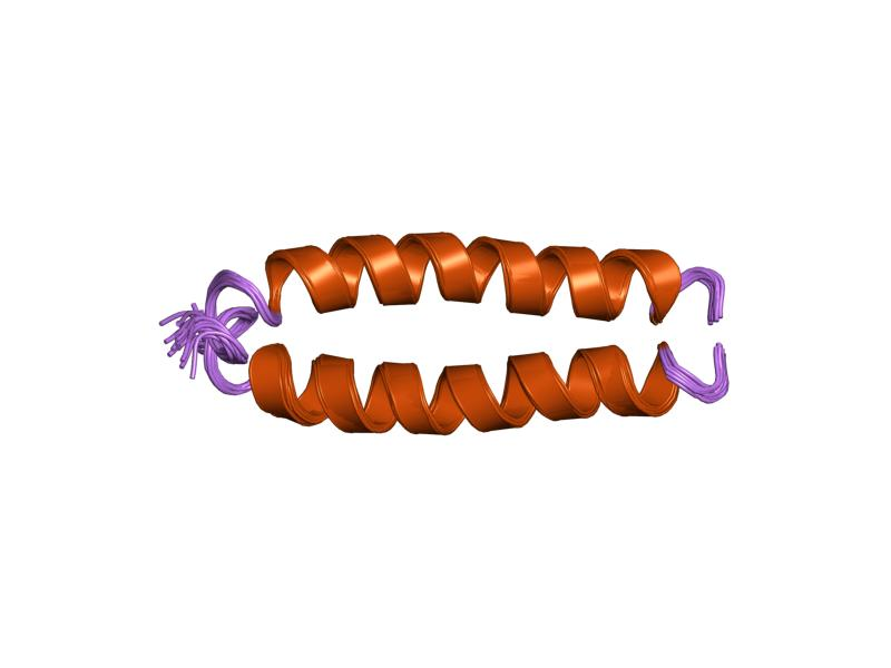 Cartoon representation of the molecular structure of protein registered with 1tmz code.